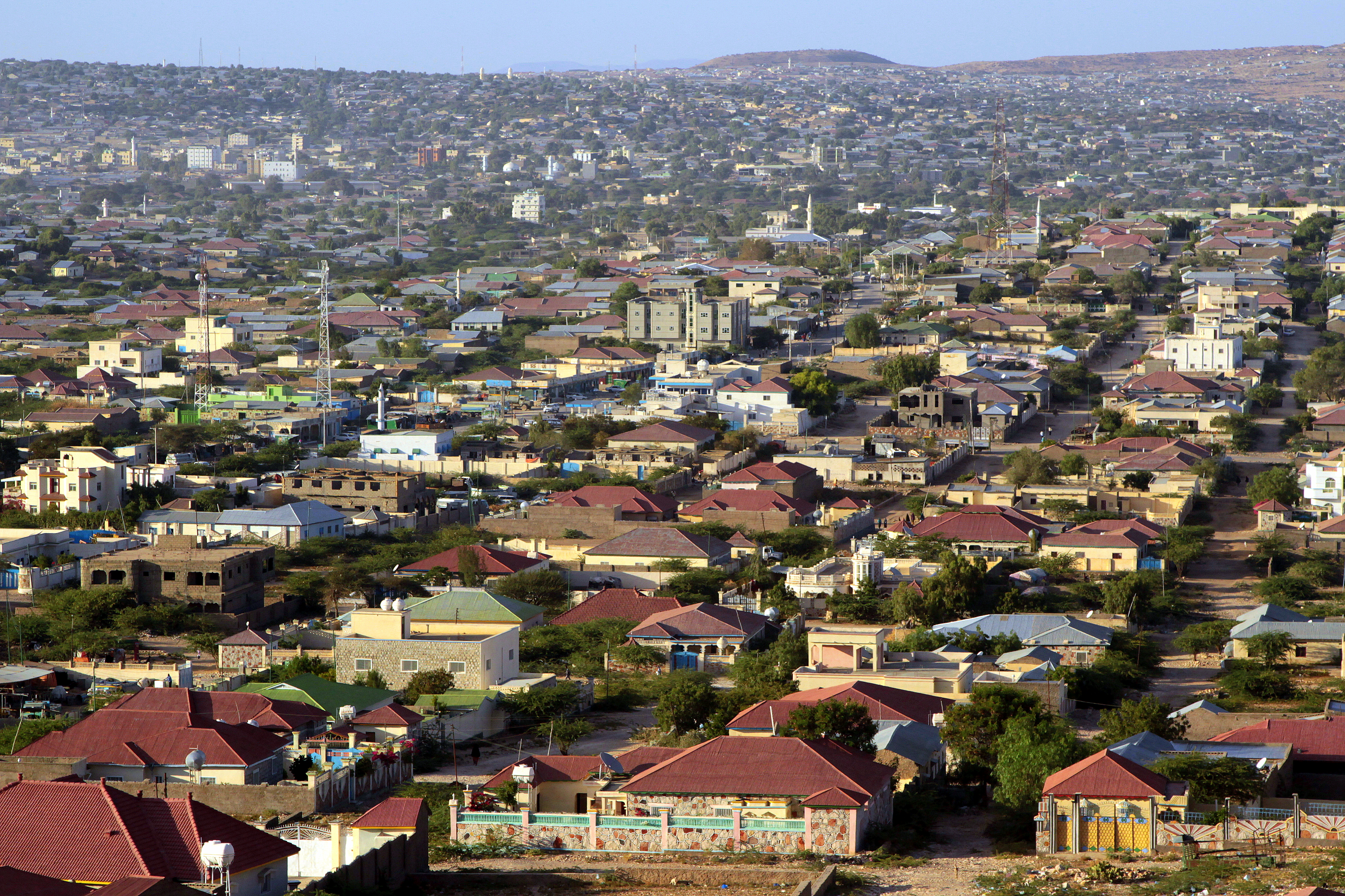 A residential area in Hargeisa, the capital of the northwestern Somaliland region of Somalia.